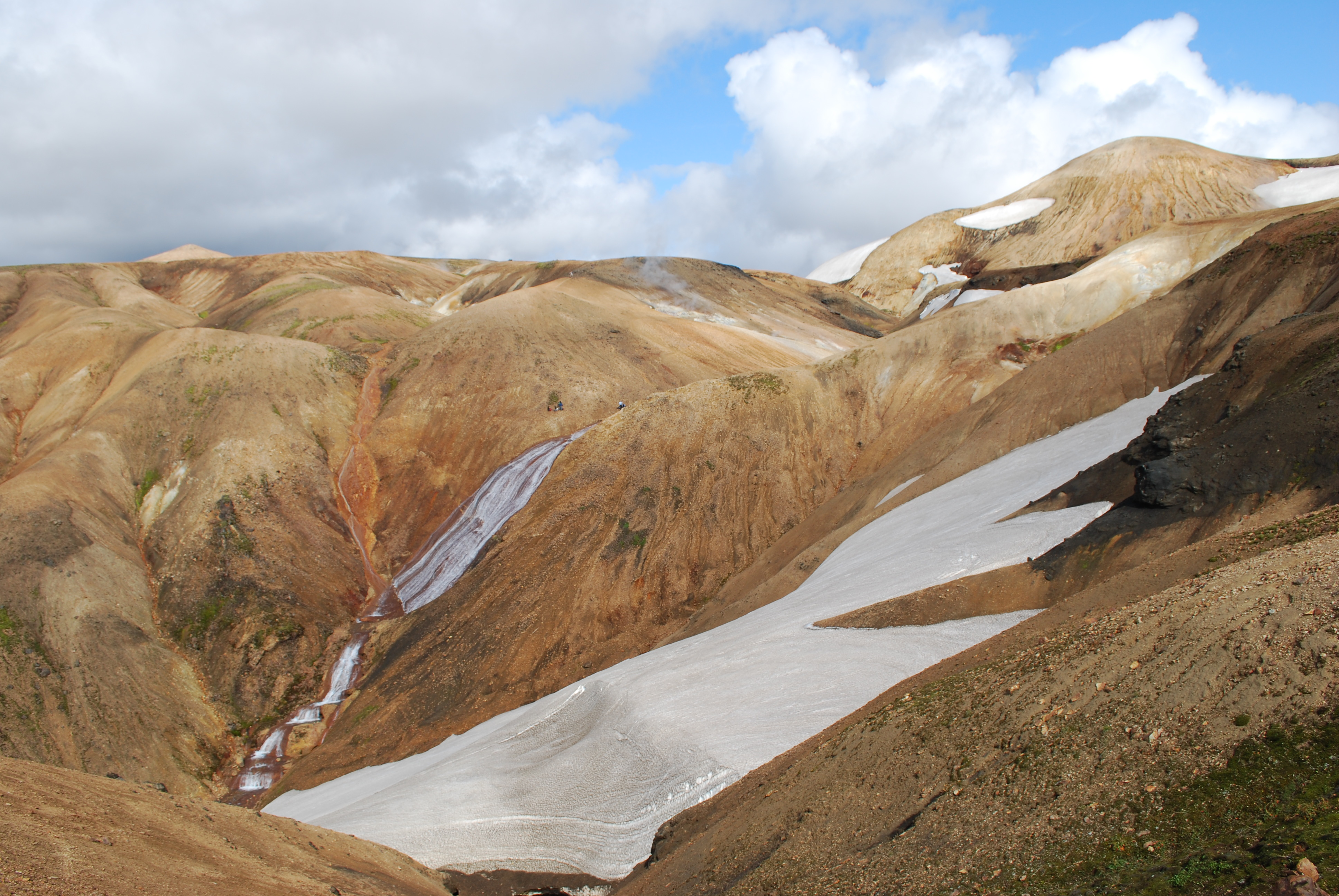 Kaldaklofsfjöll mountain range during path to Landmannalaugar, Iceland